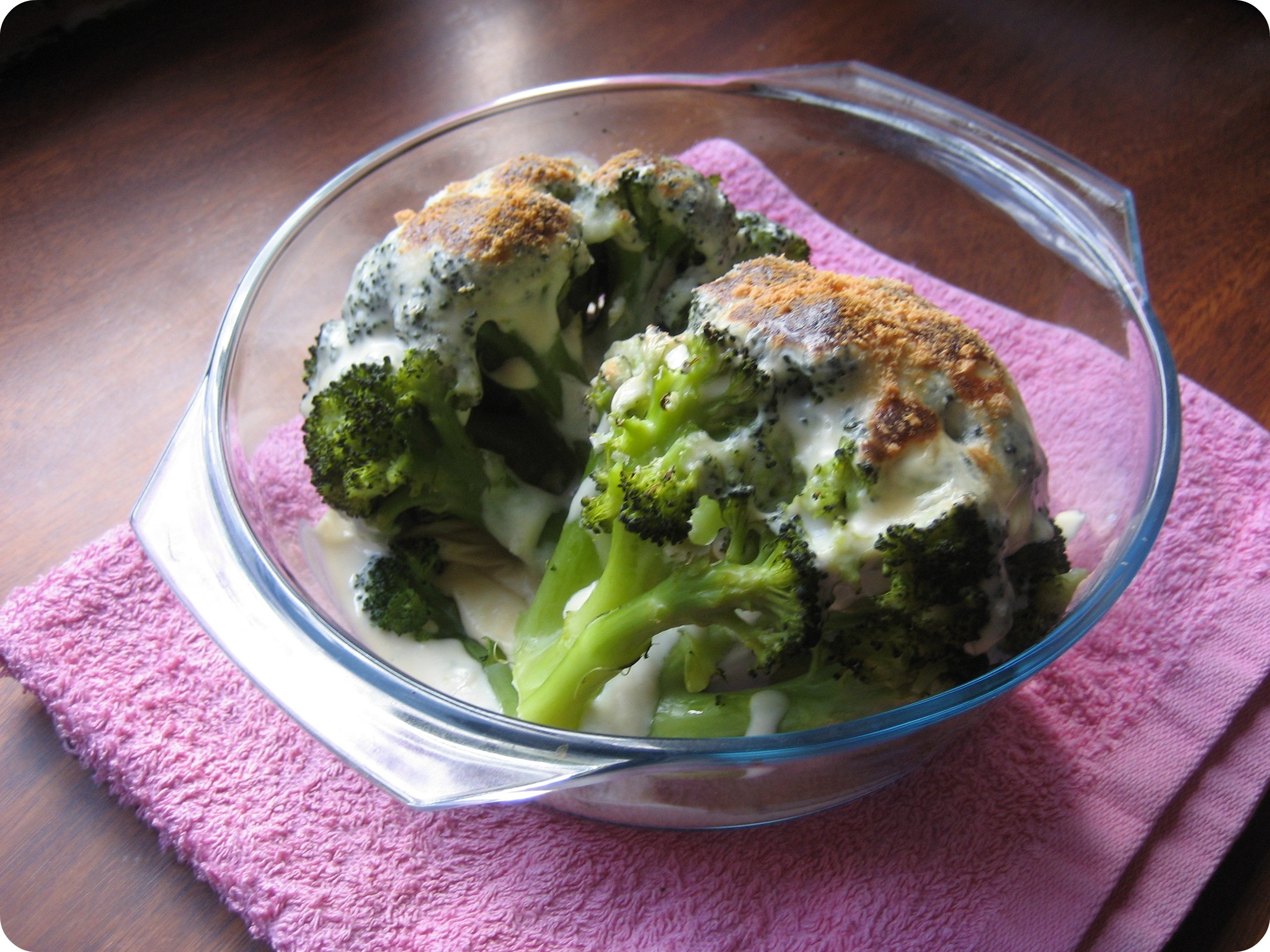 Brocololi and Bechamel